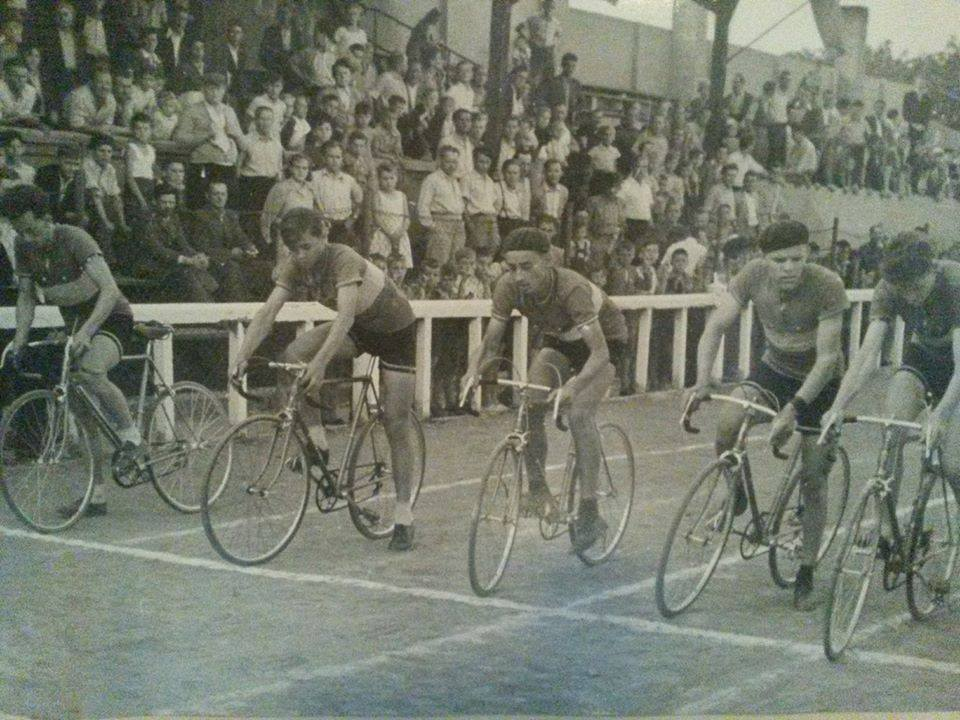 After world war 2. many new sports founded in Dorog. The bicycle sport also was very popular however suddenly it disappeared and missed at long time. Finally the reunion happened in 2017.